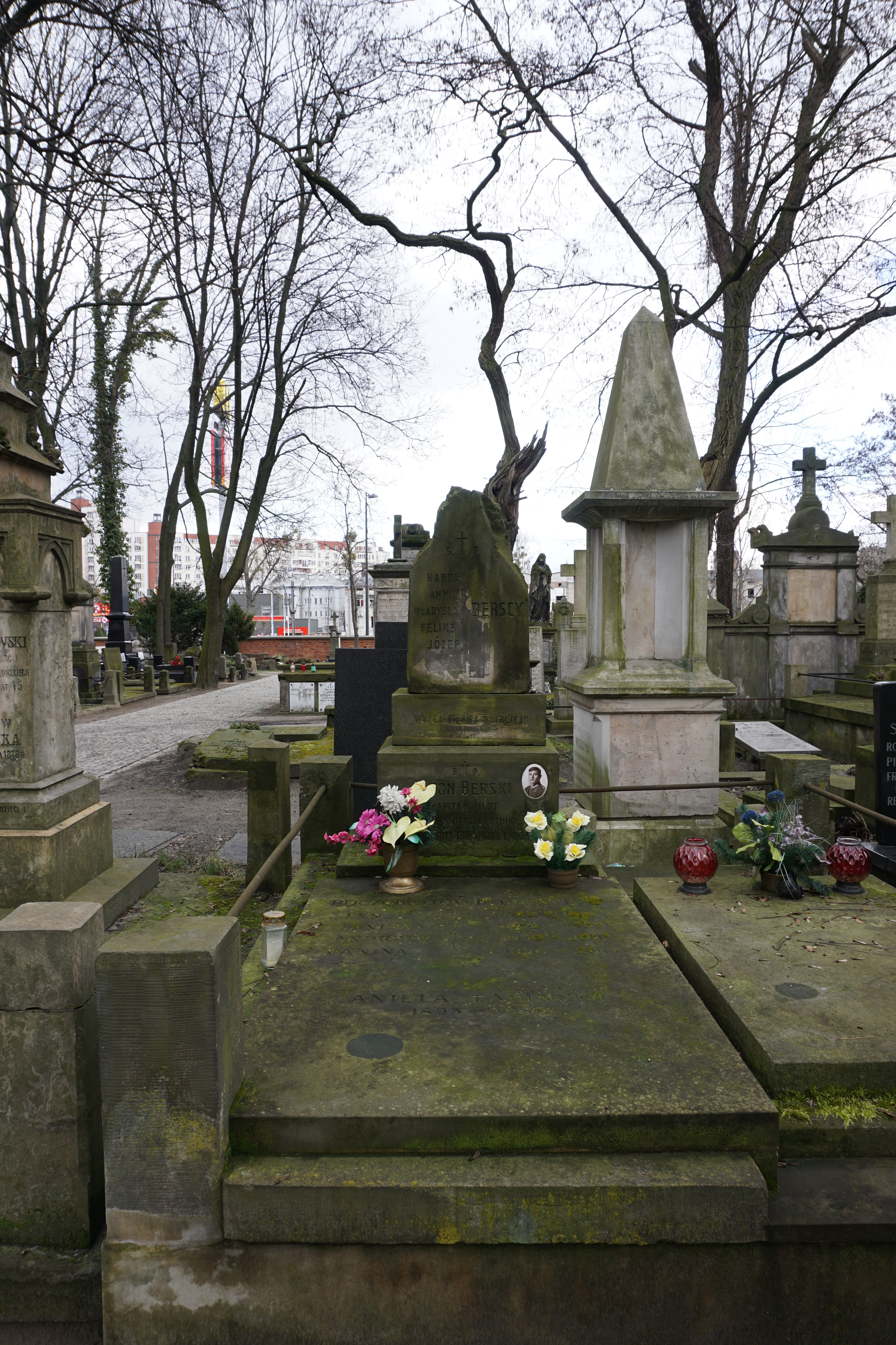 The grave of Leon Berski at the Powązki Cemetery (section 157, row 4, grave 3, 4)